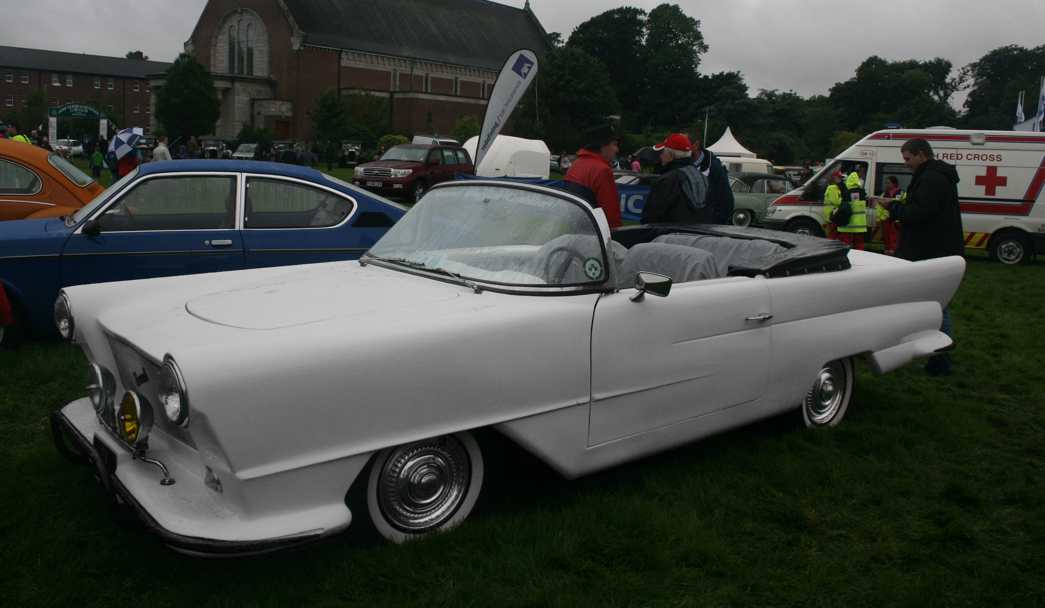 Front side